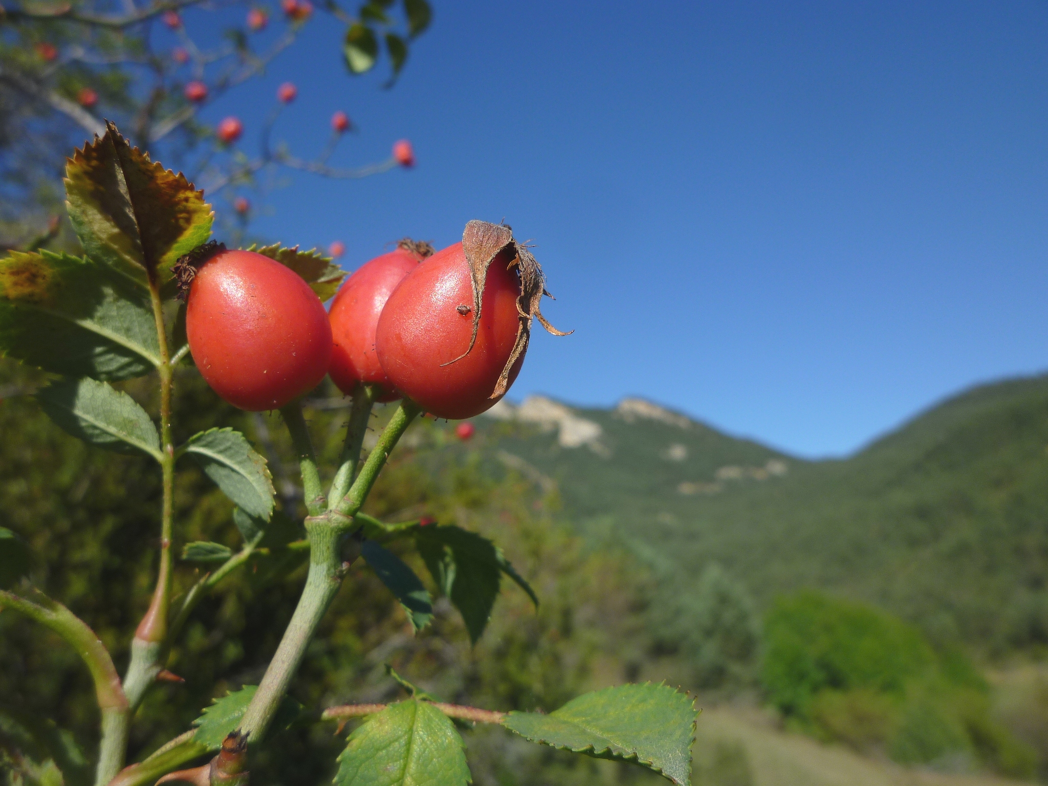 Rosa canina (fruits). In Moripol (Gósol - Bergadà -Catalunya). To 1.368 m. altitude